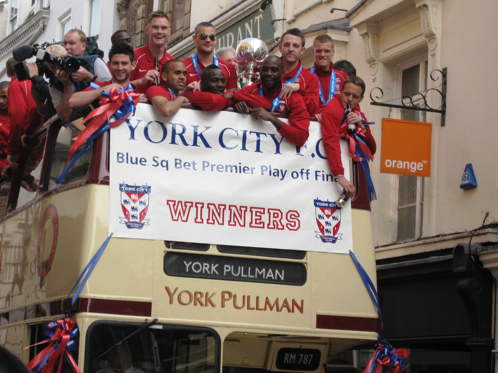 York City F.C. open top bus celebrations after doing the double of promotion to League Two and FA Trophy in 2012.